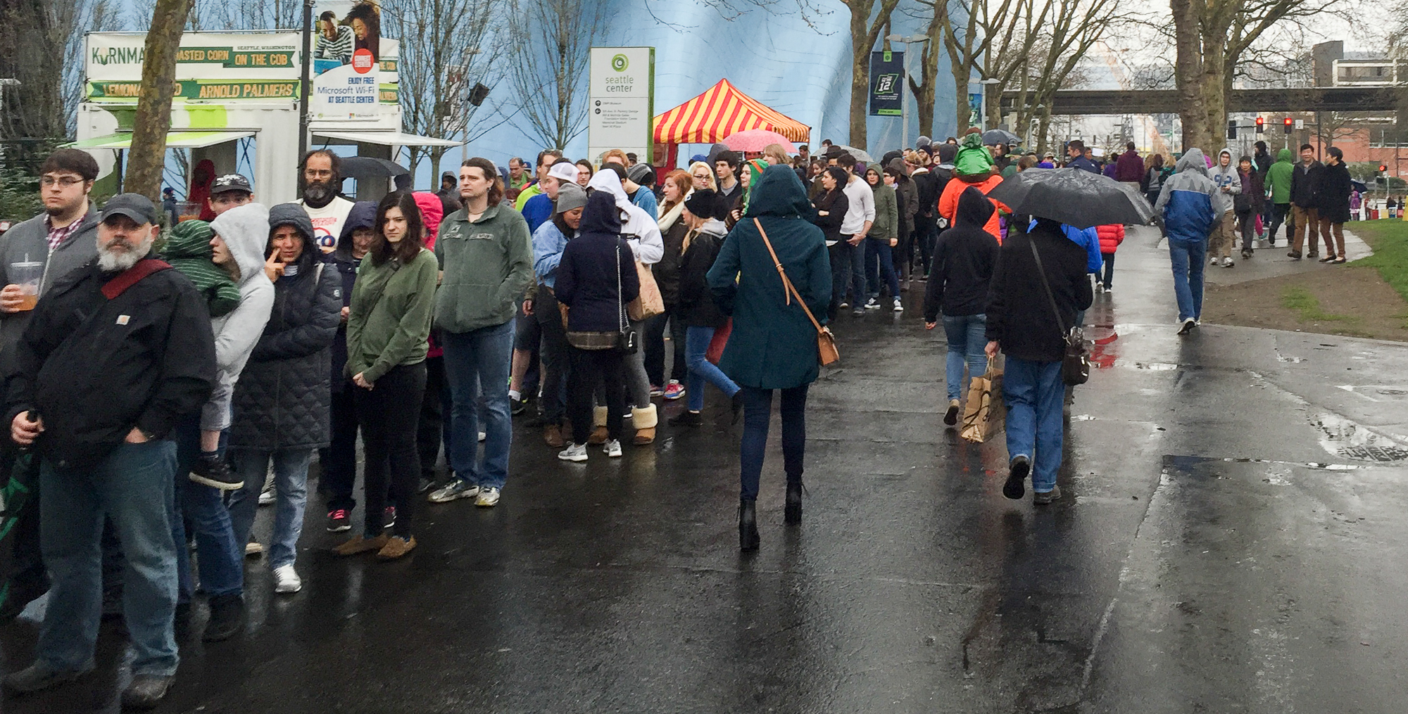 Some pics from the line for the Bernie rally today. Unfortunately the capacity wasn't high enough to hold everyone so we weren't able to get in but this is still really impressive! Seattle is definitely feeling the Bern!